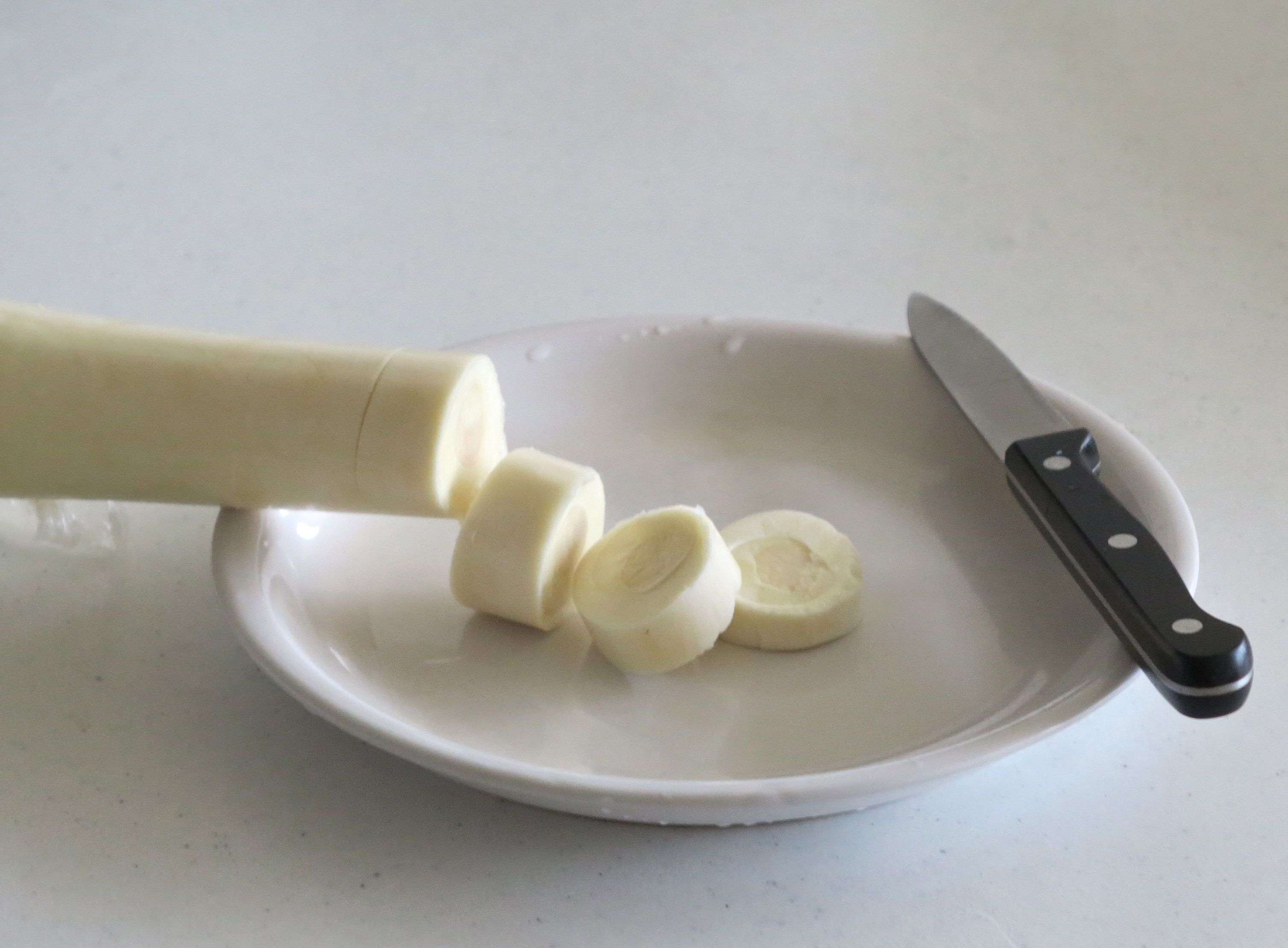 cutting up a fresh heart of palm (from Puna Gardens farm, Big Island of Hawaiʻi)